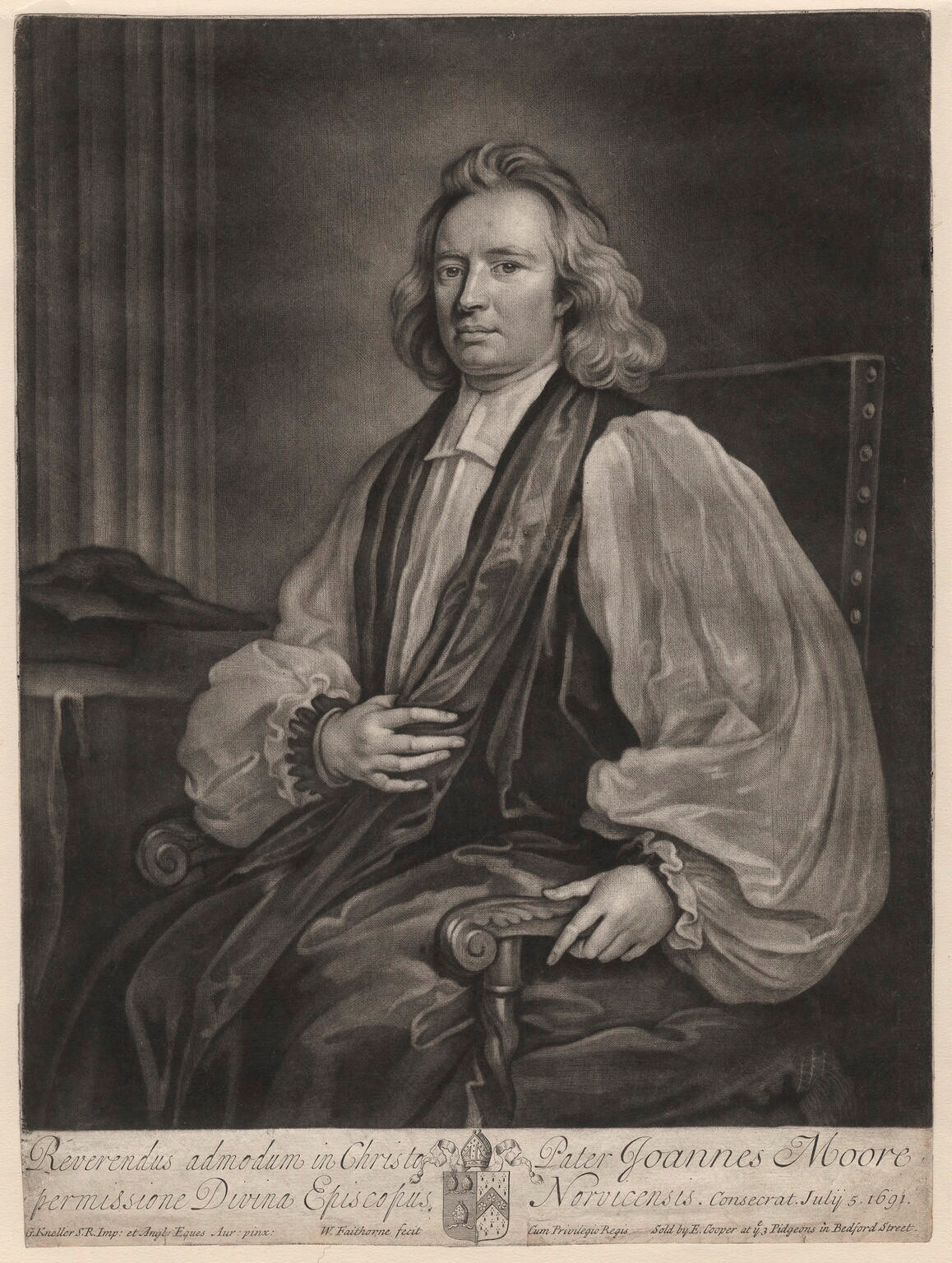 John Moore (1646–1714)